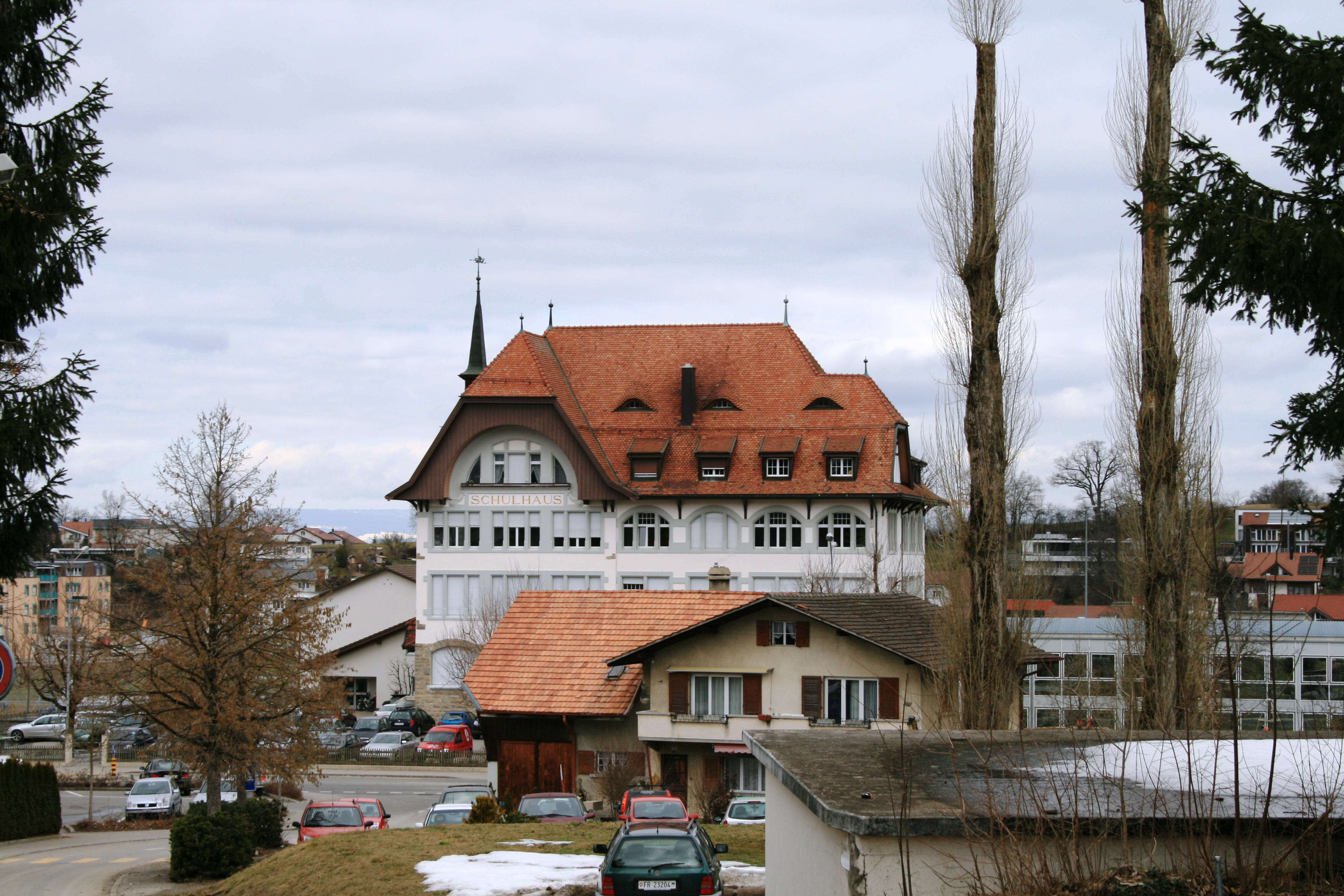 The old school of Tafers FR, Switzerland